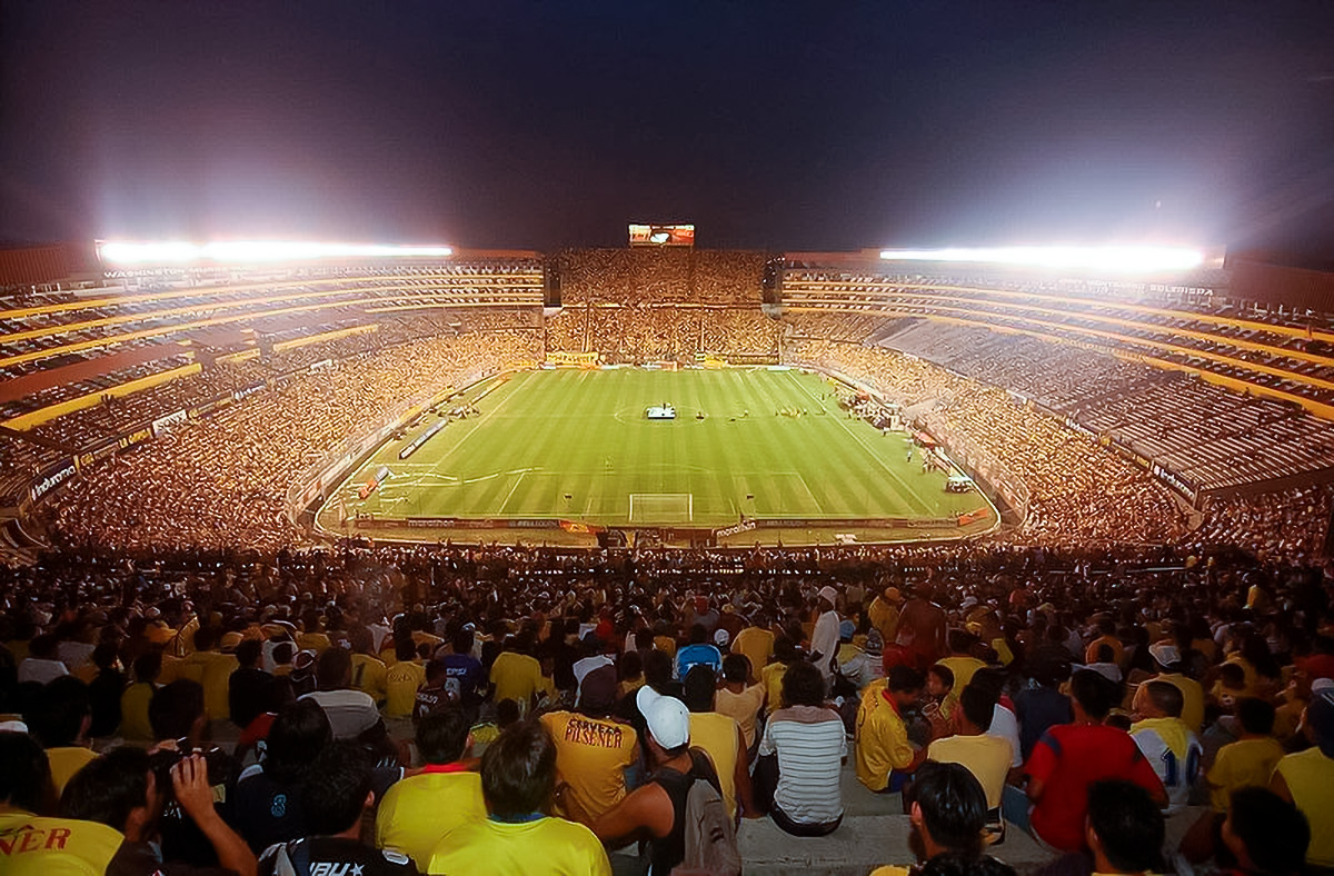 Estadio Monumental, one of the biggest in South America